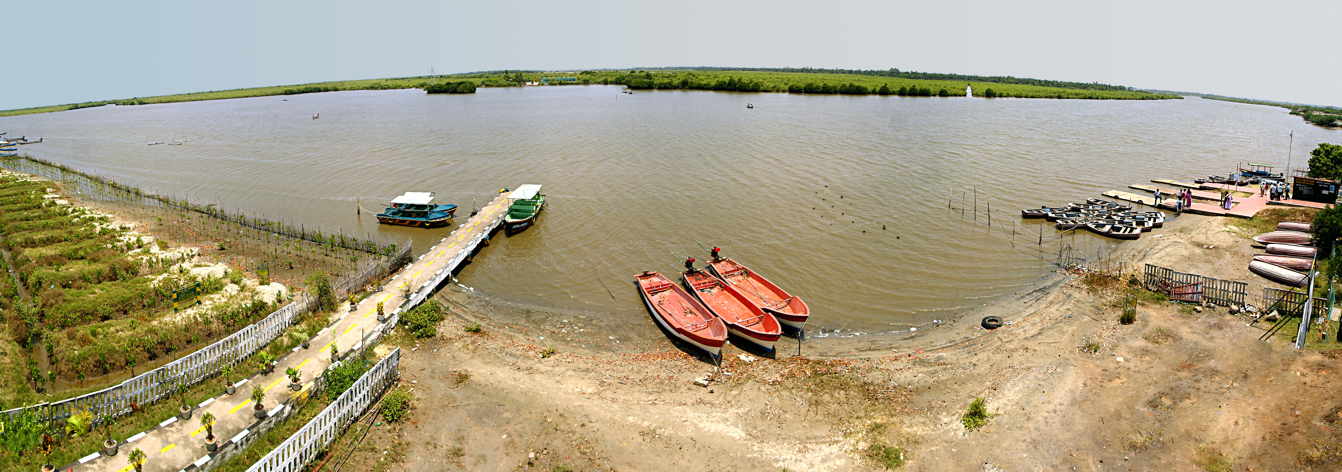 An overview of the Pichavaram mangrove forest from the viewing tower.